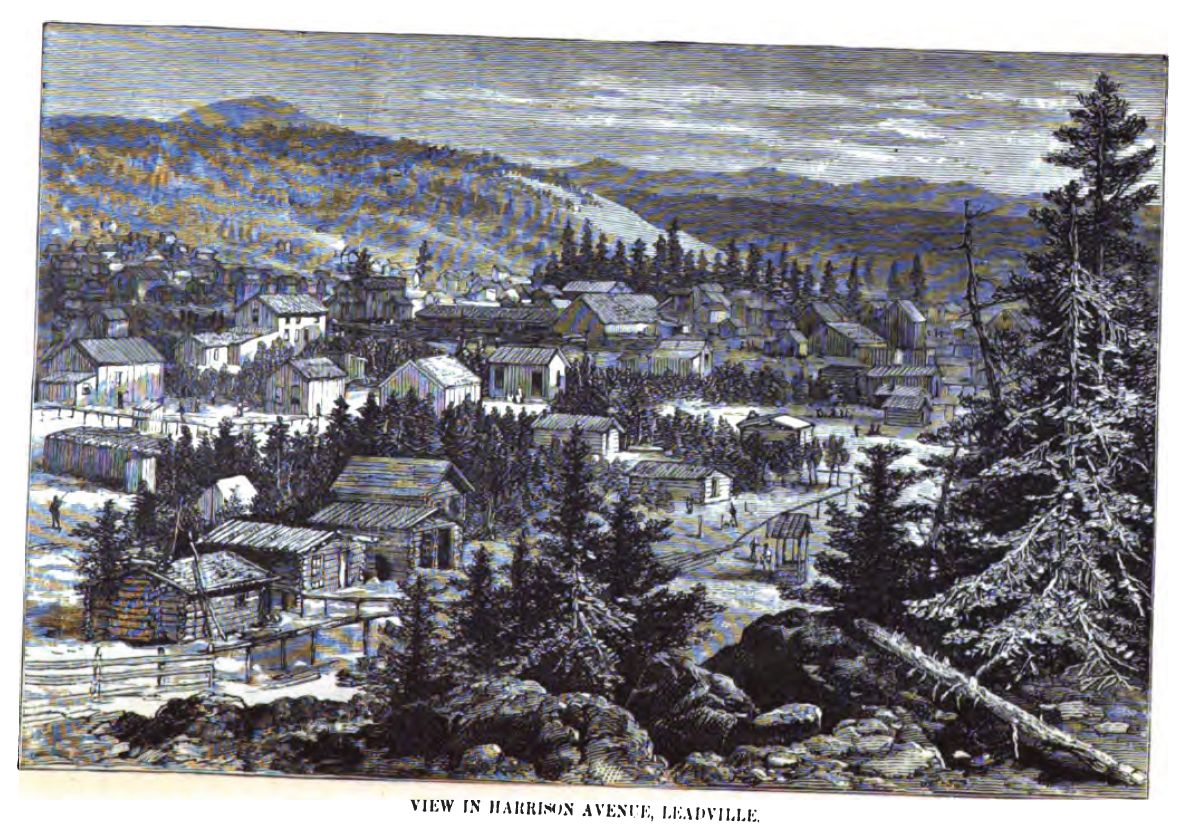 Engraving of Harrison Ave, Leadville, Colorado, circa 1880